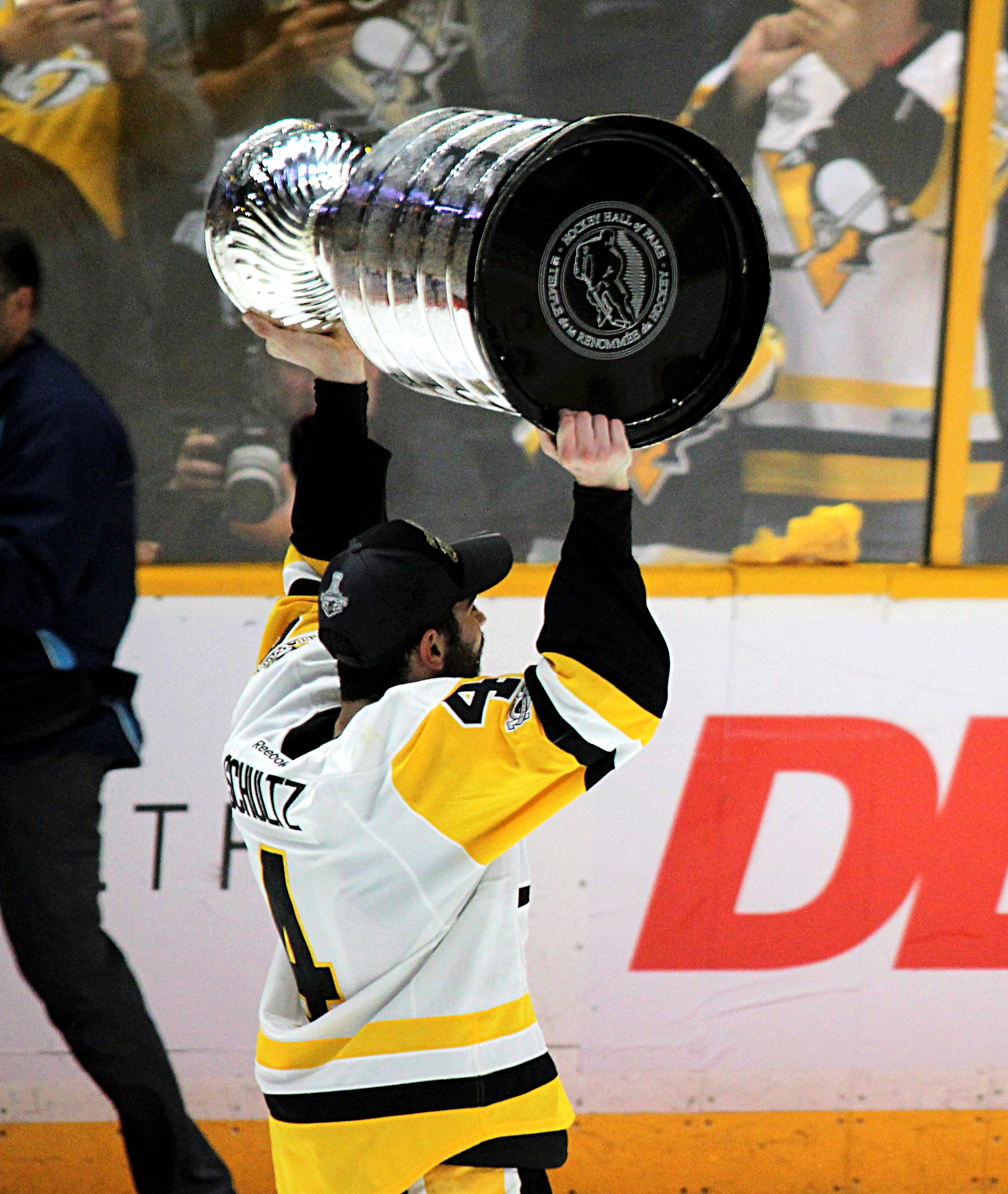 Pittsburgh Penguins defenseman Justin Schultz skates with the Stanley Cup in Nashville in 2017.